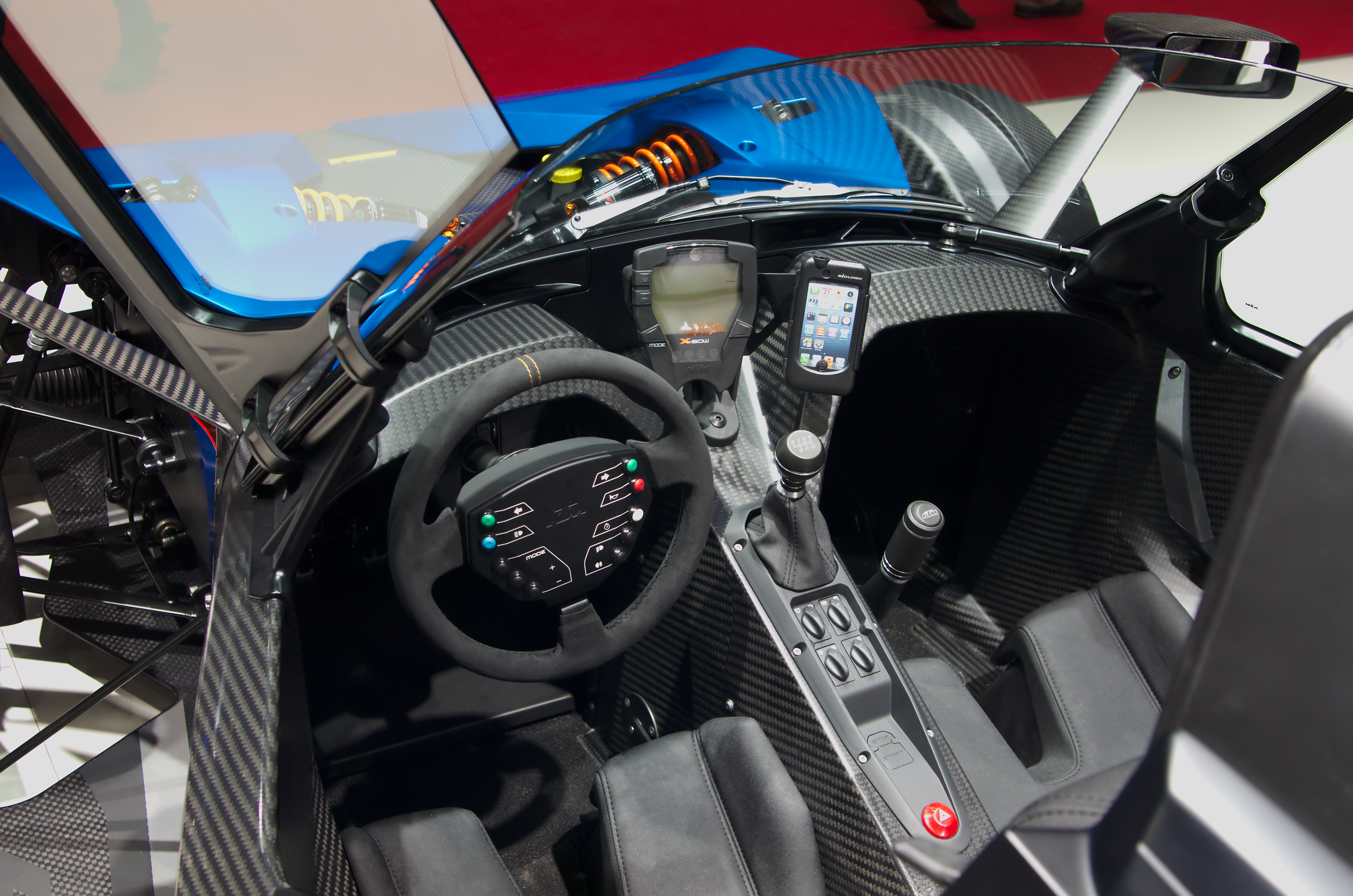 Geneva MotorShow 2013 - KTM X-bow GT blue steering wheel